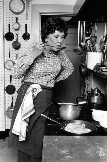 Julia Child in her kitchen as photographed ©Lynn Gilbert, 1978, Cambridge, Mass.